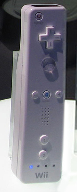 Nintendo's Wii remote as it was shown at E3 2006.